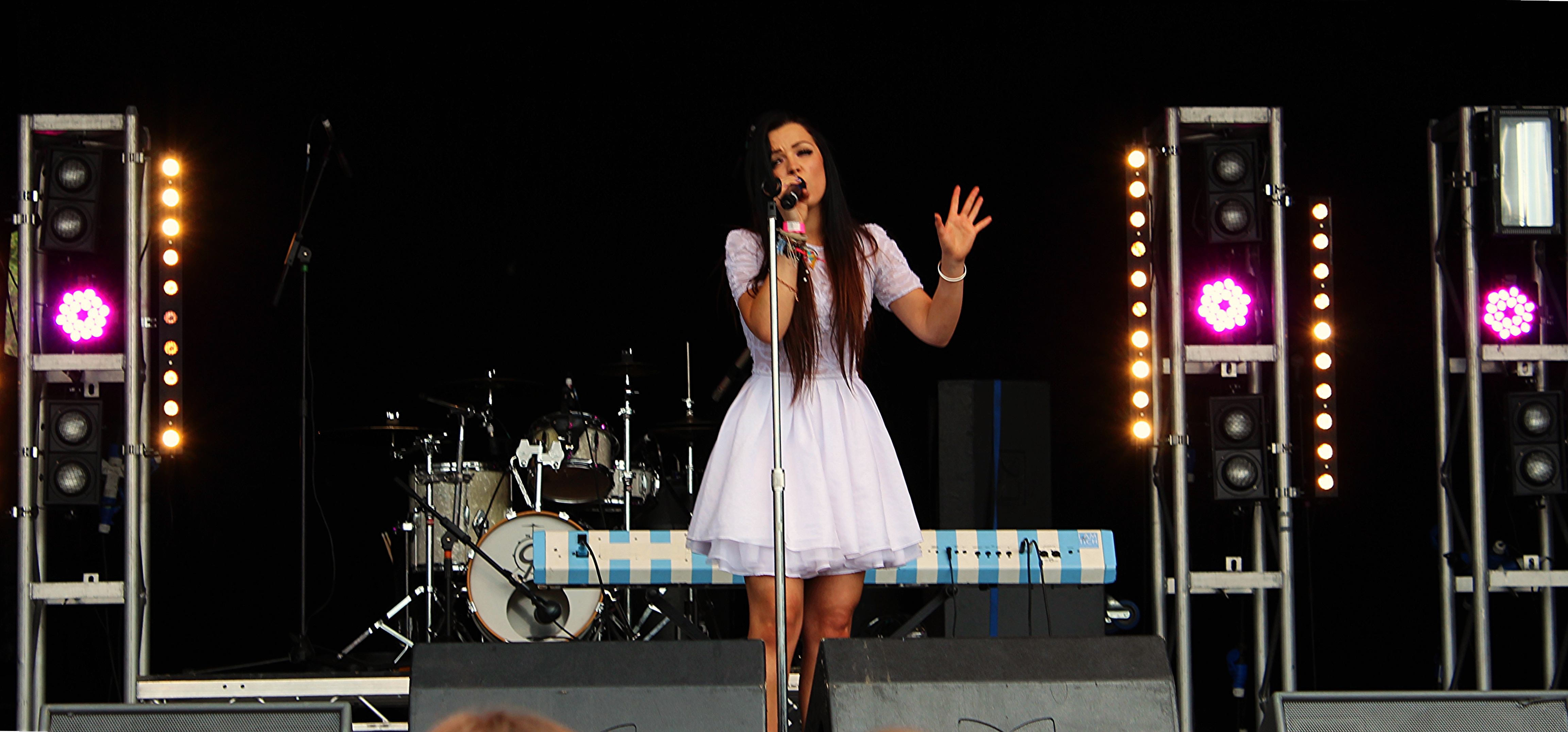 Tich performing at Dartford Festival, 2013